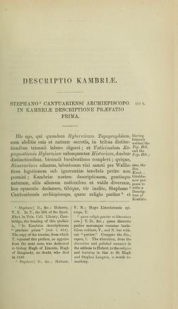 First page of James F. Dimock's edition of the Descriptio Cambriae by Gerald of Wales.